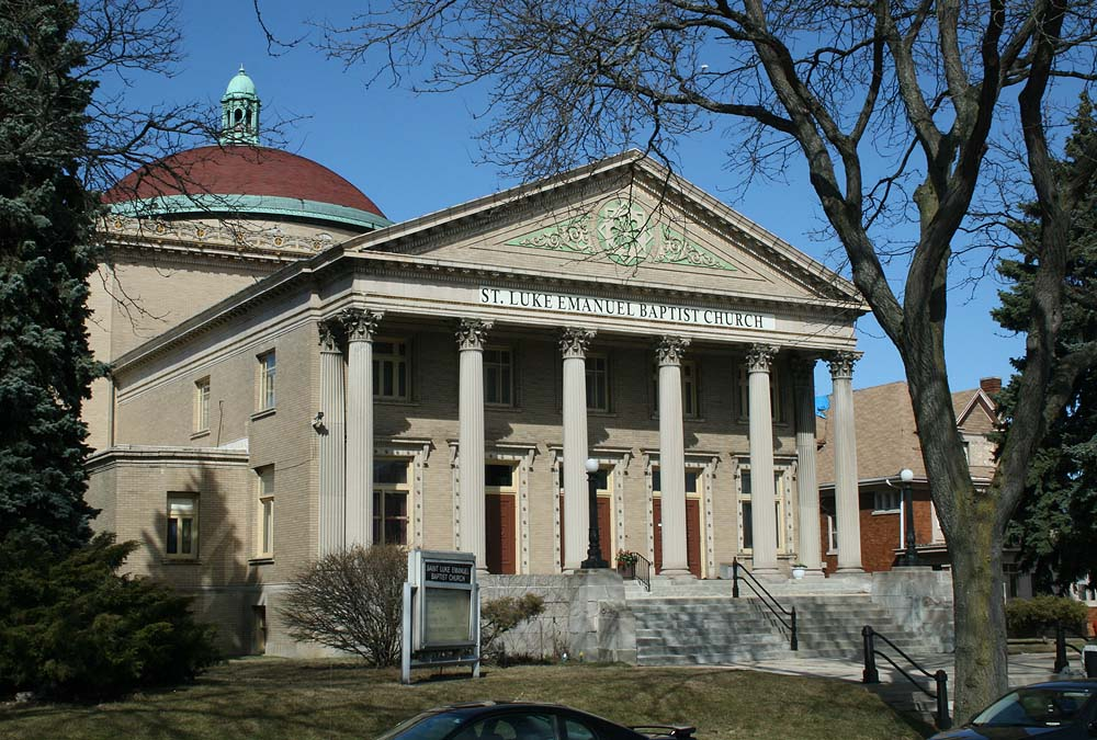 Second Church of Christ Scientist, Milwaukee Wisconsin, National Register of Historic Places. At this time, Saint Luke Emanuel Baptist Church.